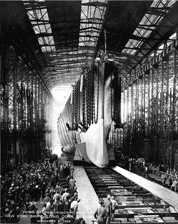 USS Hawaii (CB-3) "leaving the launching ways at the New York Shipbuilding Corp., Camden, N. J. on 3 November 1945."